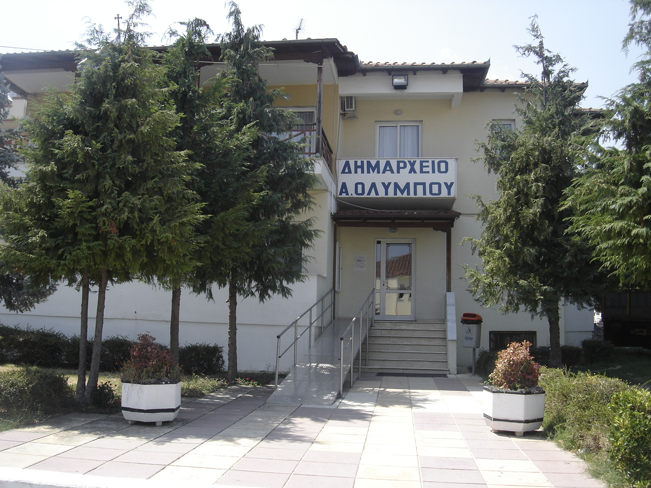 The cityhall of East Olympus, in Leptokarya.